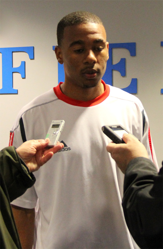 Reggie Lambe talks to reporters after today's morning practice.